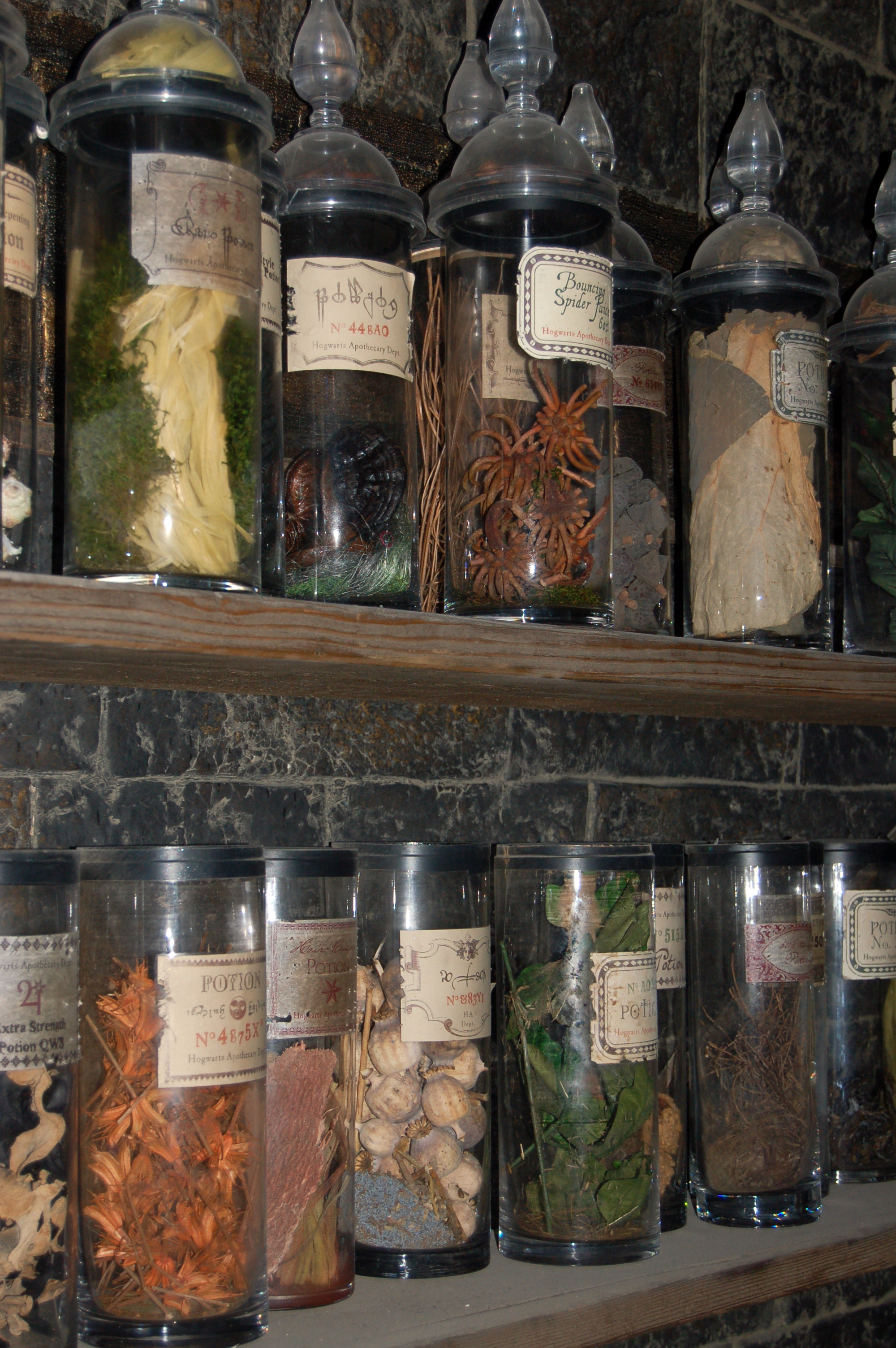 Potions Classroom